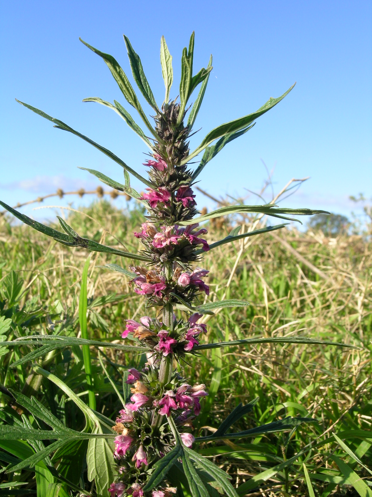 Introduced, cool-season, annual or short-lived perennial herb 50-150 cm tall. Lower leaves are 5-7 cm long, broadly ovate to triangular and lobed to deeply divided. Upper leaves are usually linear and shorter. Flowers are pink, mauve or white and to 10-15 mm long; occurring in dense un-stalked whorls at the upper nodes. Flowering is from winter to summer. A native of Asia and the Pacific, it is a weed of river flats, roadsides and other disturbed places; mostly south of the Bellinger Valley. An occasional minor weed of disturbed areas, which declines when ground cover increases. Control is usually not required.